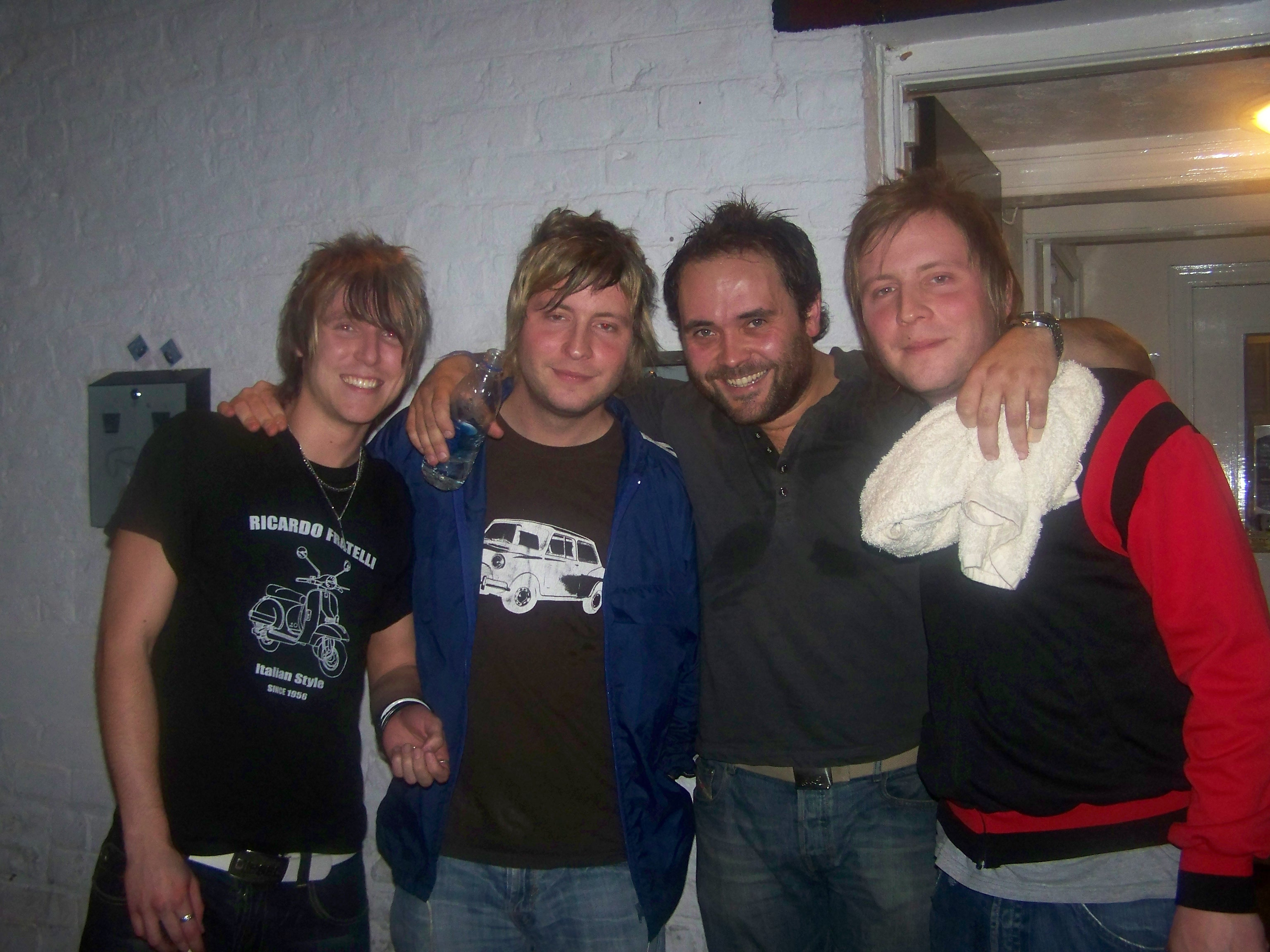 James and Tom Martin Photograph taken by Purplepickledonions. Commons:Category:Musicians from England